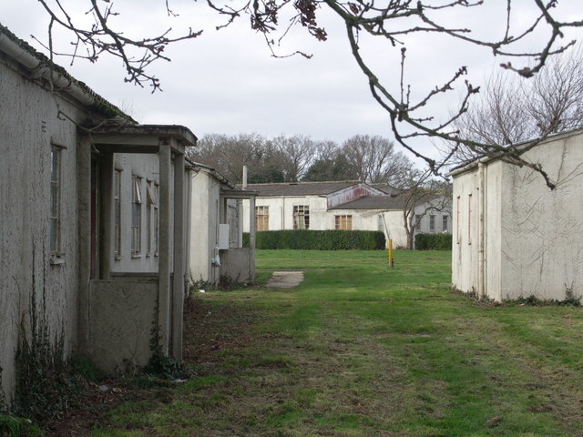 Sopley Camp - former military barracks Was used to house the Vietnamese "boat people" from 1979 to 1981. Now in private hands.